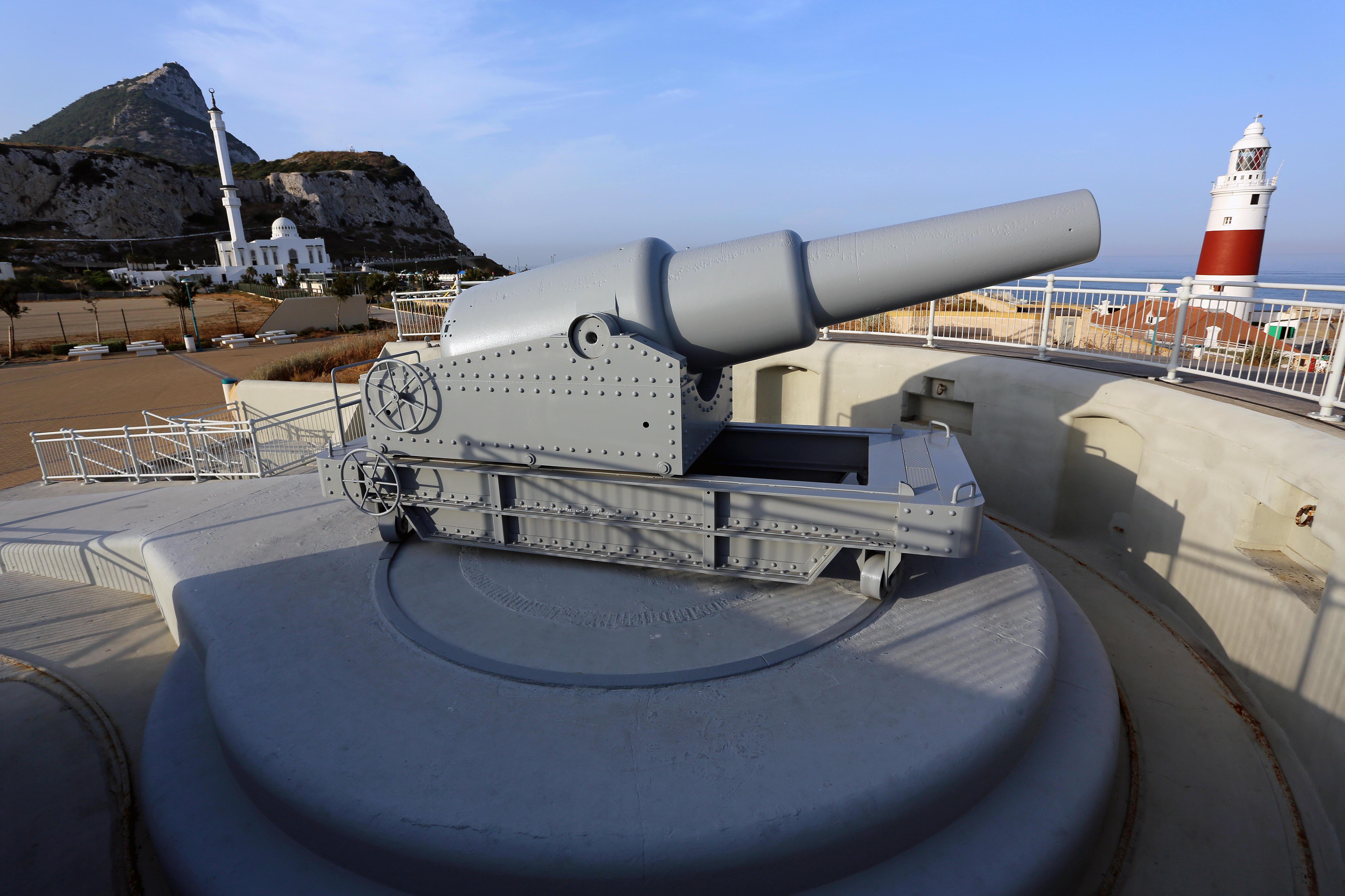 Harding's battery was originally built in 1859. It had been abandoned and buried under a mound of sand for years that served as a Tourists' Observation Point of the Straits of Gibraltar. It t was unearthed in 2010 and refurbished as part of a makeover of the whole of the Europa Point area.